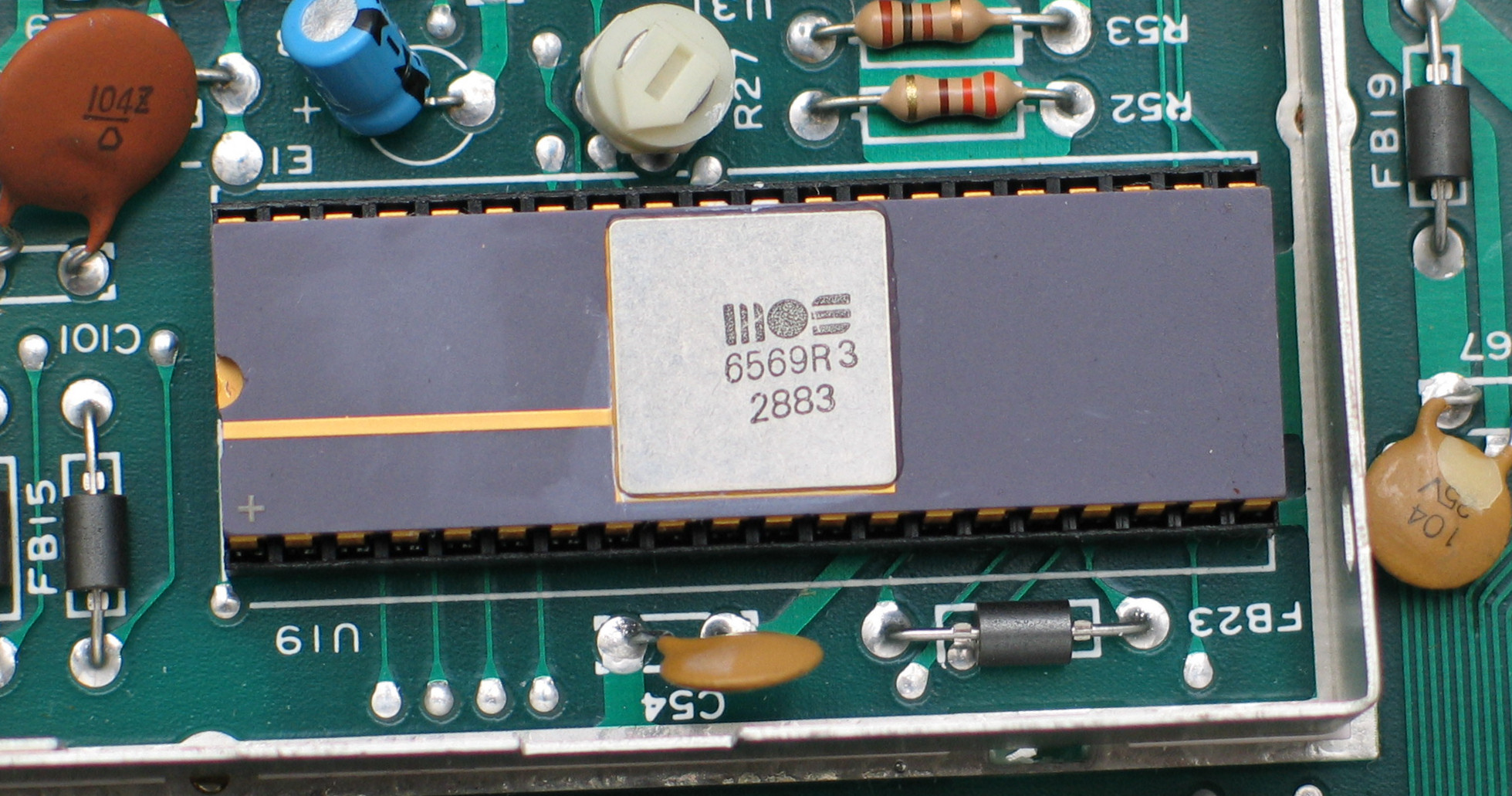 MOS 6569R3 Video chip from a Commodore 64 main board (PAL version)